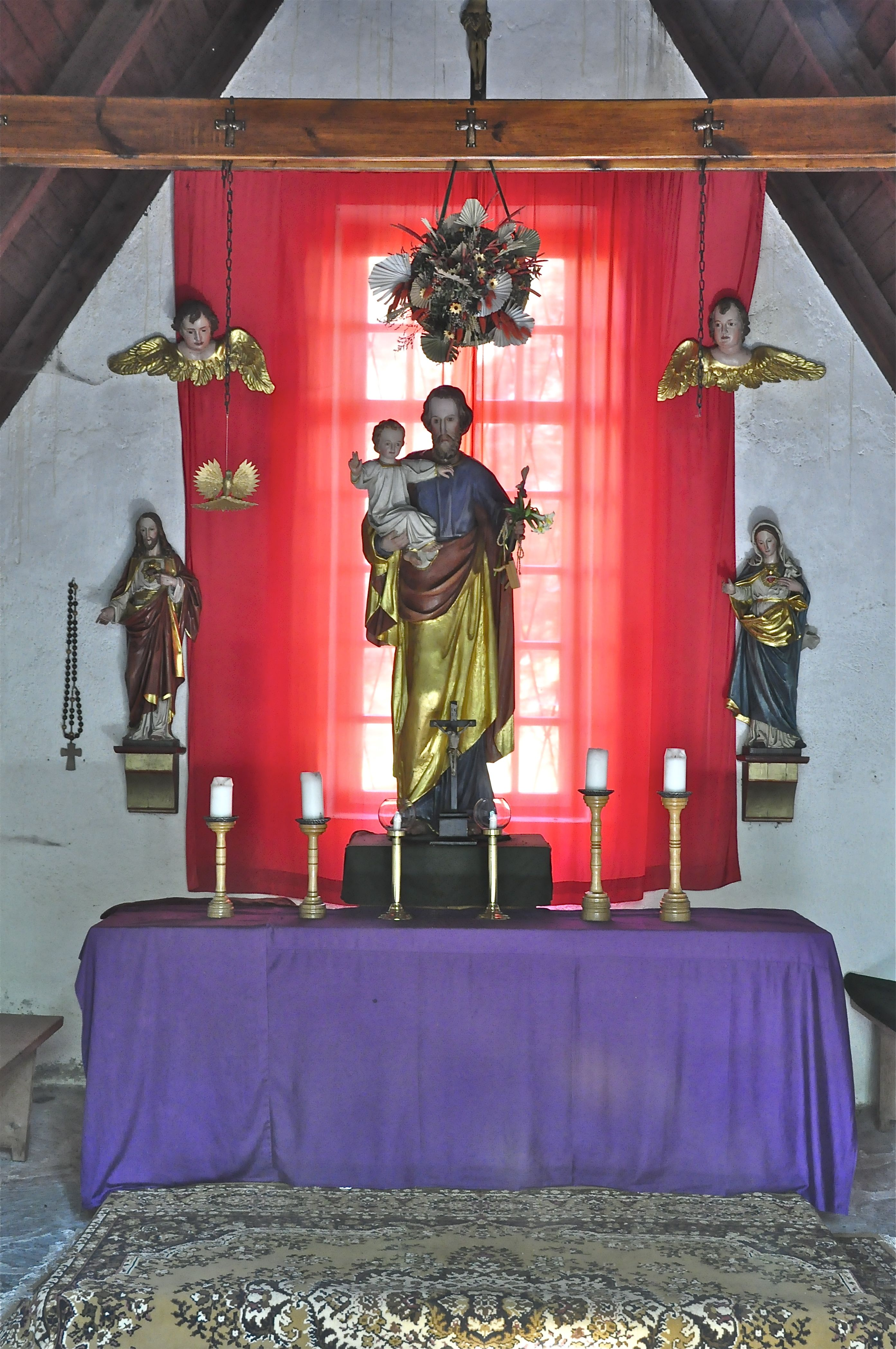 Altar in the Saint Joseph`s forest chapel at Tibitsch, municipality Techelsberg am Wörther See, district Klagenfurt Land, Carinthia / Austria / EU